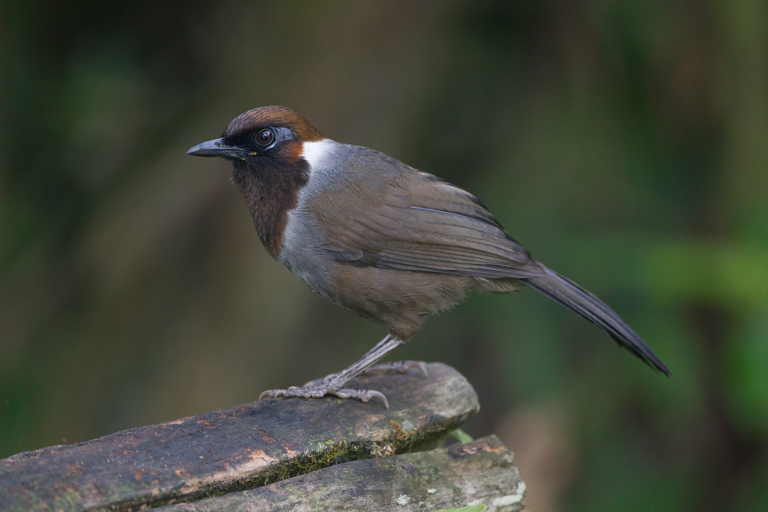 White-necked Laughingthrush (Garrulax strepitans), Mae Wong National Park, Nakhon Sawan, Thailand